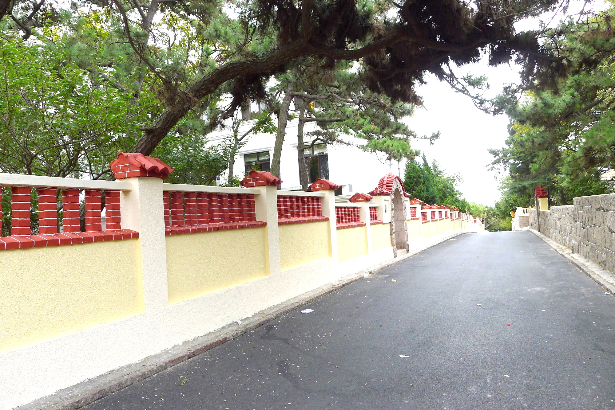 Qingdao Badaguan street view